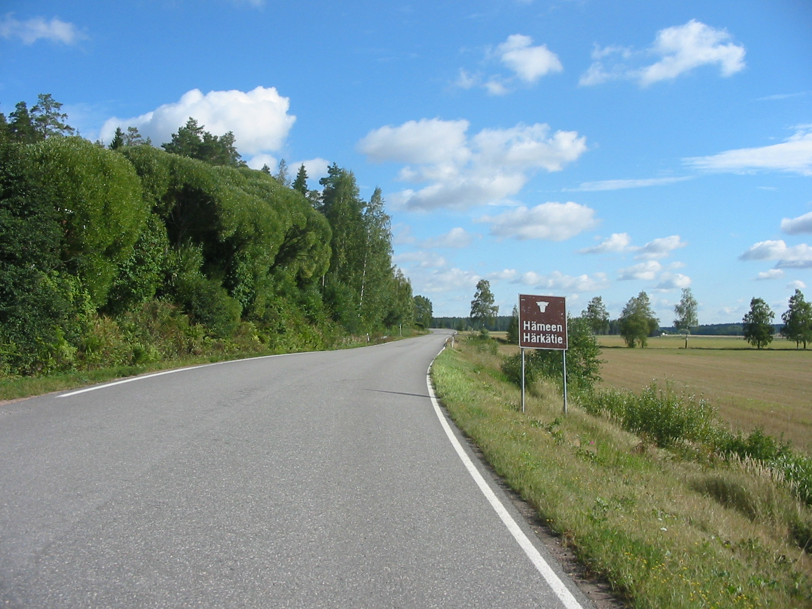 Connecting road 2230, part of the Häme oxen road, in Lieto, Finland